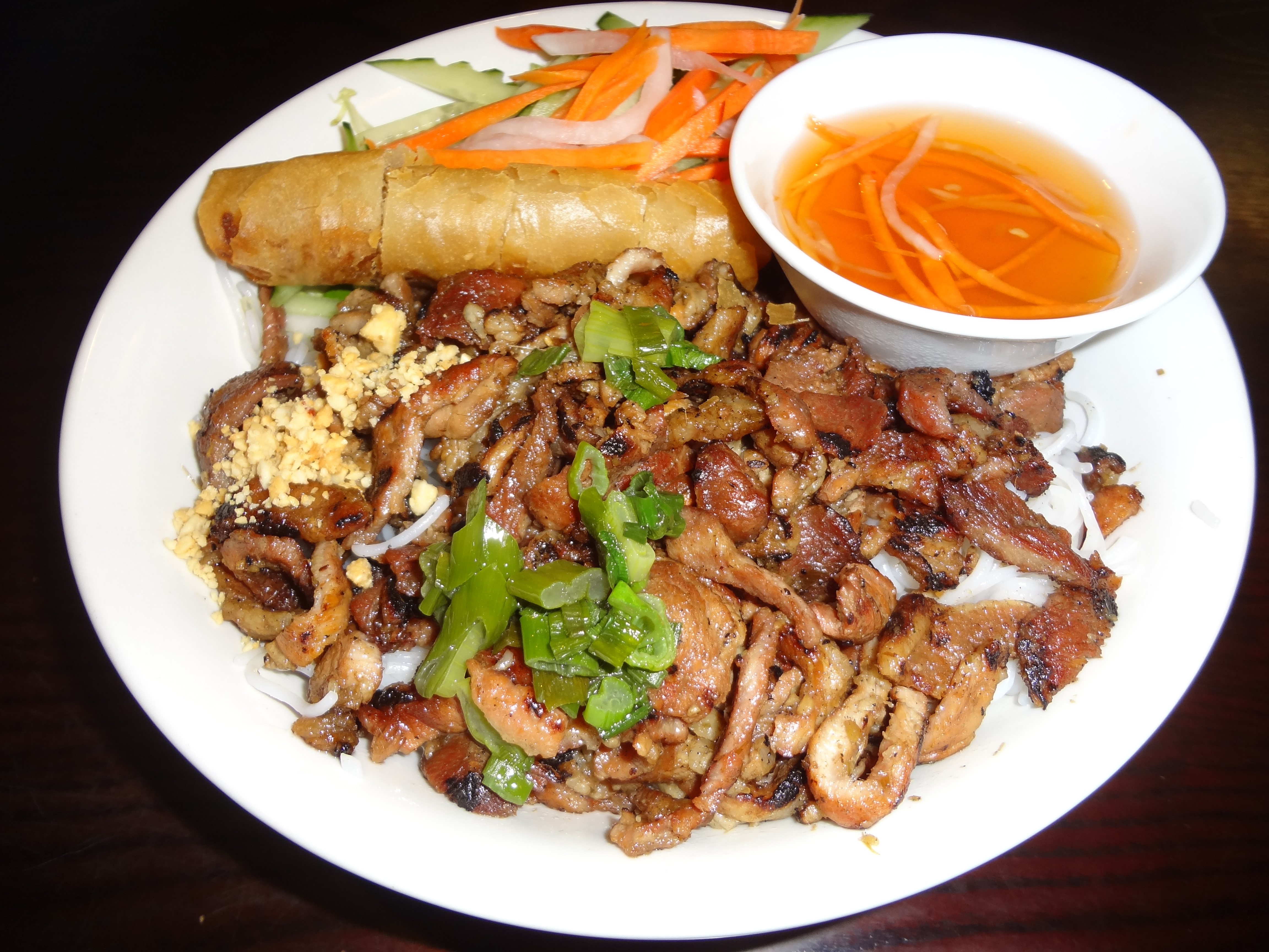 Bún Thịt Nướng Chả GiòTiếng Việt: Bún Thịt Nướng Chả Giò